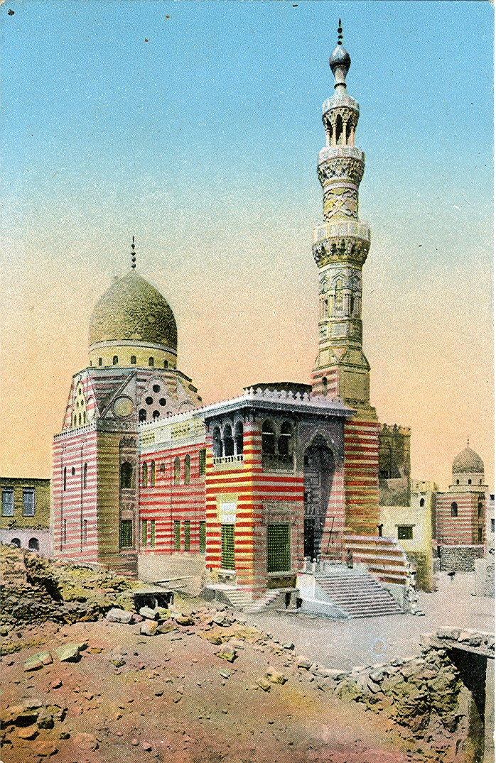 Postcard, undated ( ca.1914 ). Title: "Cairo - Kaitbai mosque"